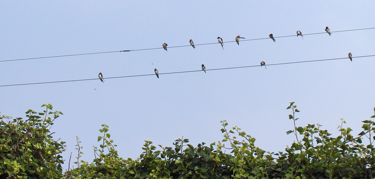 A flock of swallows (Hirundo rustica) sitting on a power supply line.